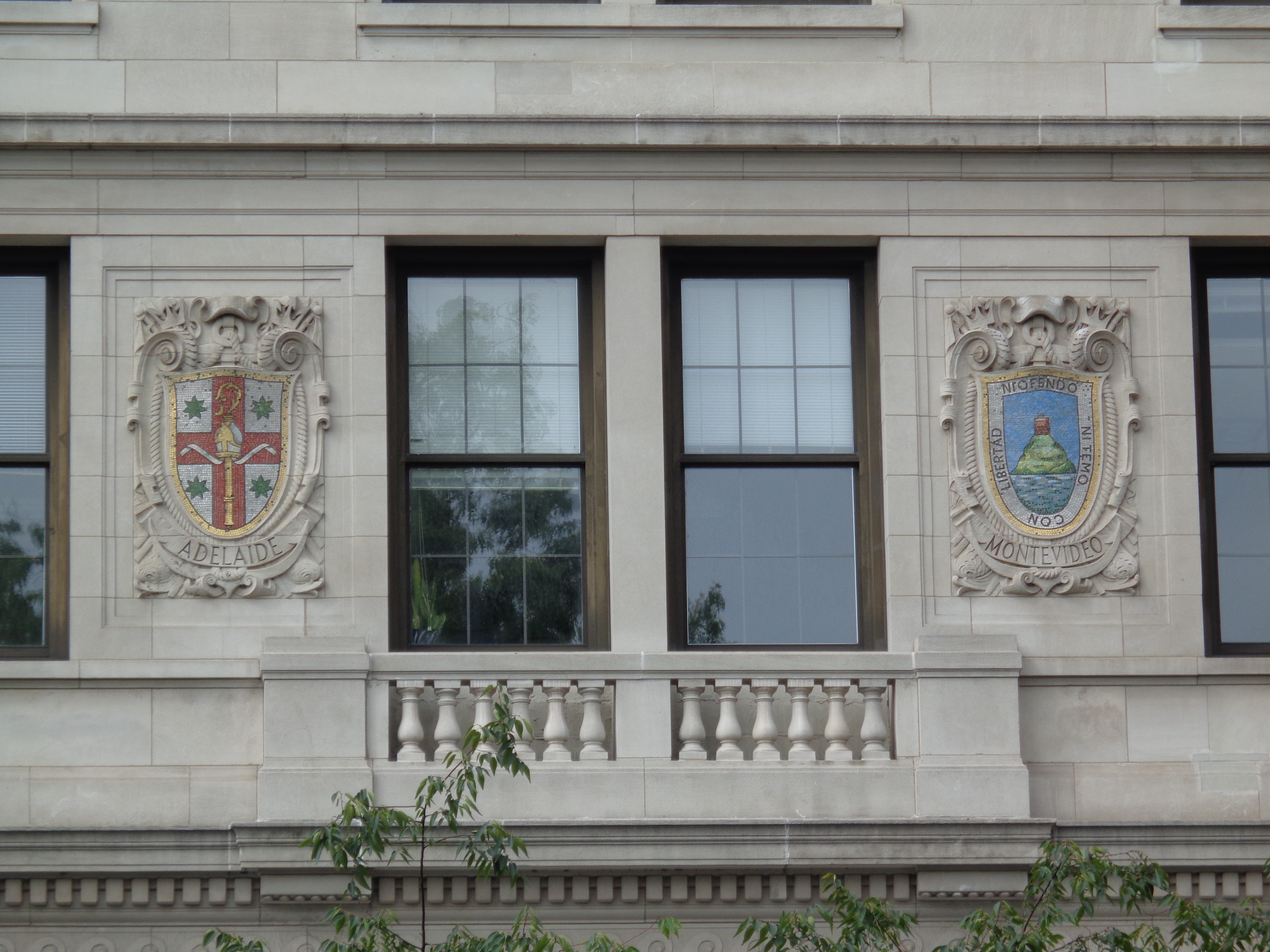 Looking at 1 Broadway from Battery Park in the Financial District, Manhattan.